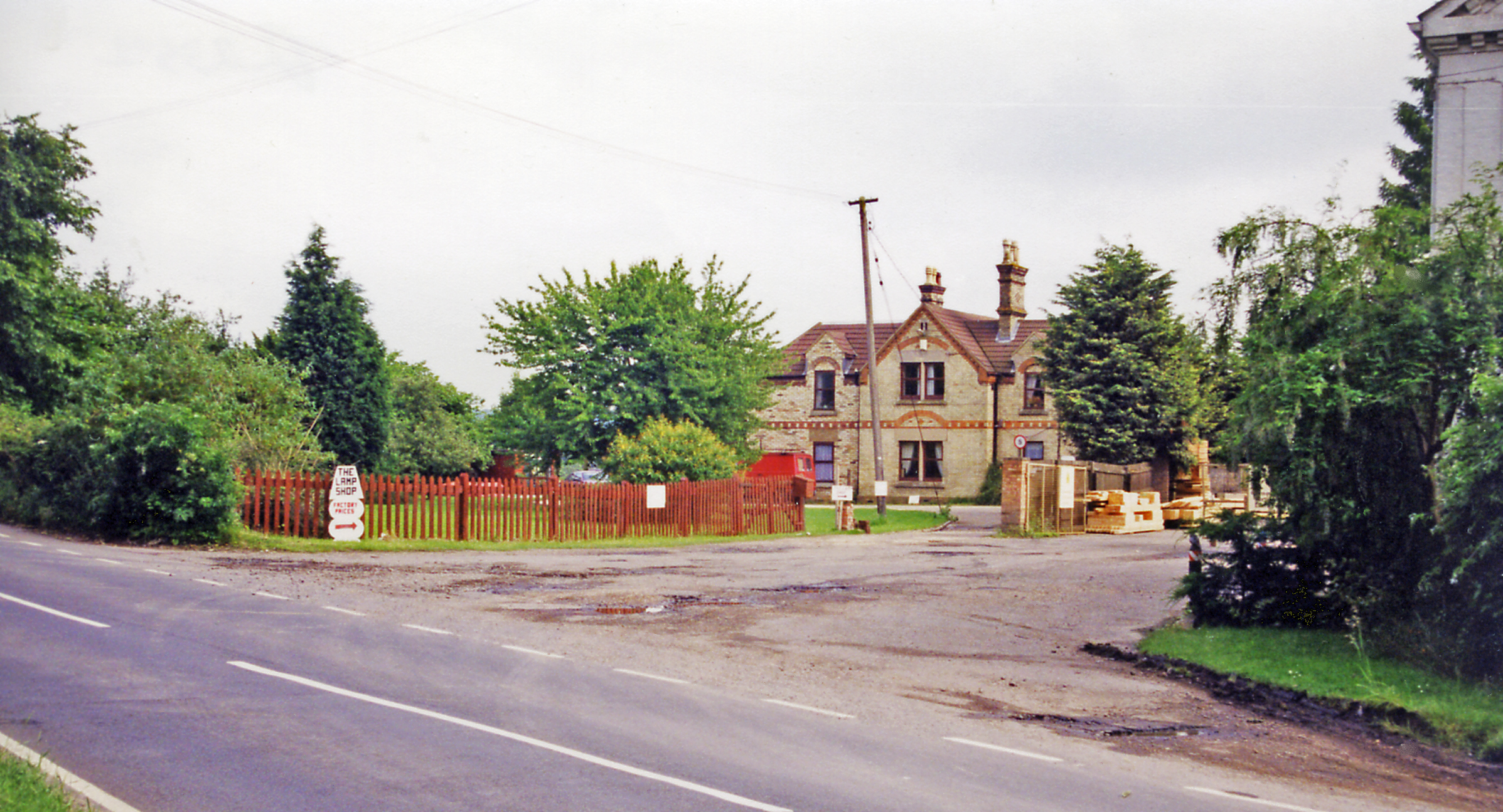 Former station at Gamlingay, 1998. View SE: the line was behind the surviving station house: ex-LNWR Bletchley - Bedford - Cambridge line, closed completely Bedford (to right) - Cambridge (to left) from 1/1/68, but eventual reopening is expected.